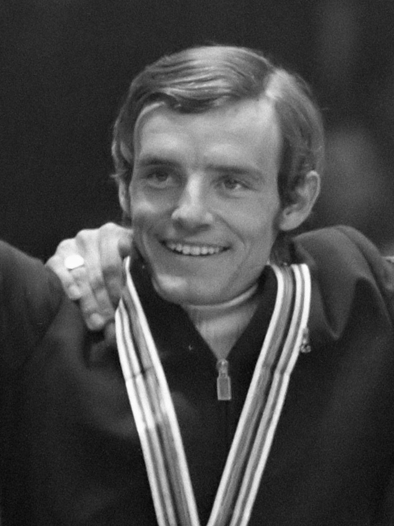 Jean-Claude Killy (1943), Alpine skier from France (cropped from File:Perillat, Killy, Datwyler.jpg)